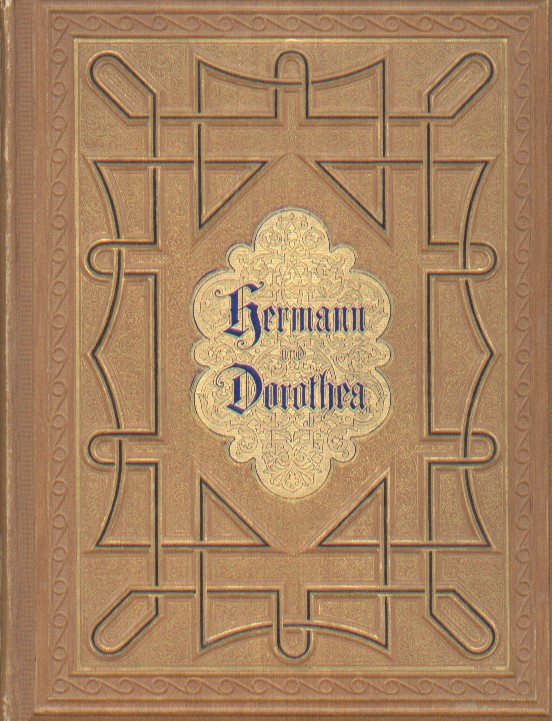 Book cover of Johann Wolfgang von Goethe "Hermann und Dorothea" 1878